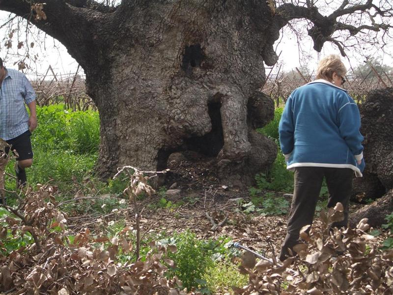 taybe oak tree